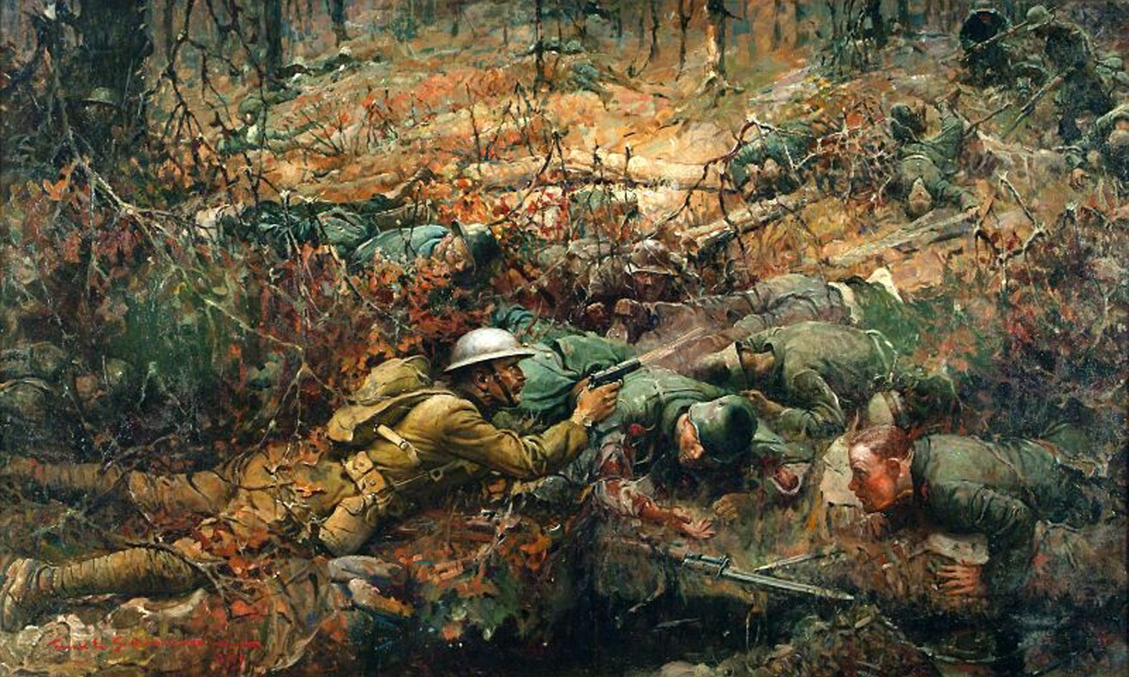 This battle scene was painted in 1919 by artist Frank Schoonover. The scene depicts the bravery of Alvin C. York in 1918.